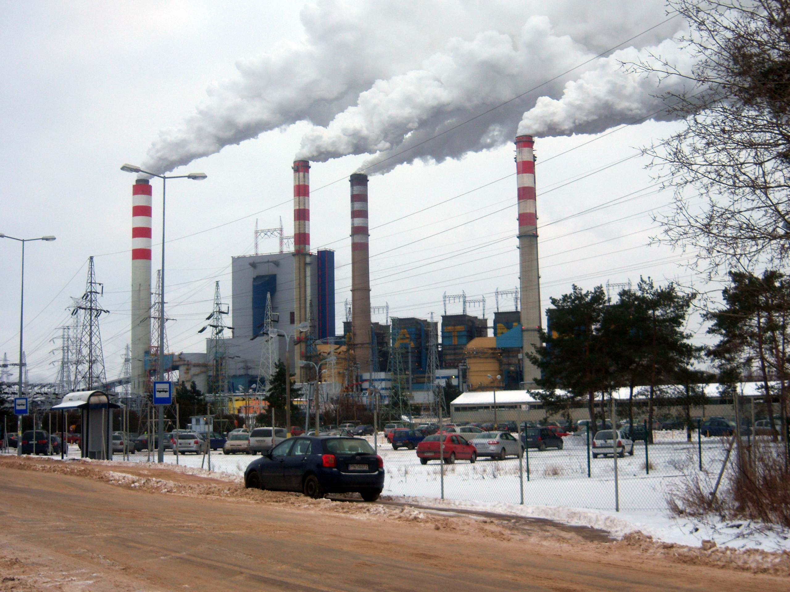 "Pątnów" power plant in Konin, Poland.